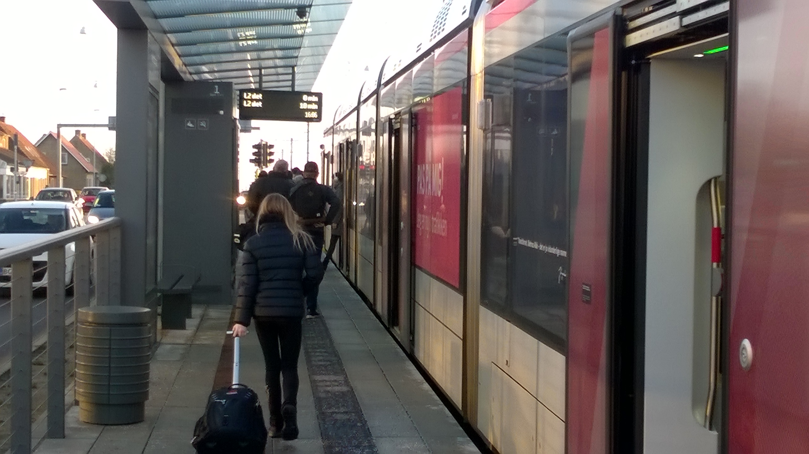 Vandtårnet Station.